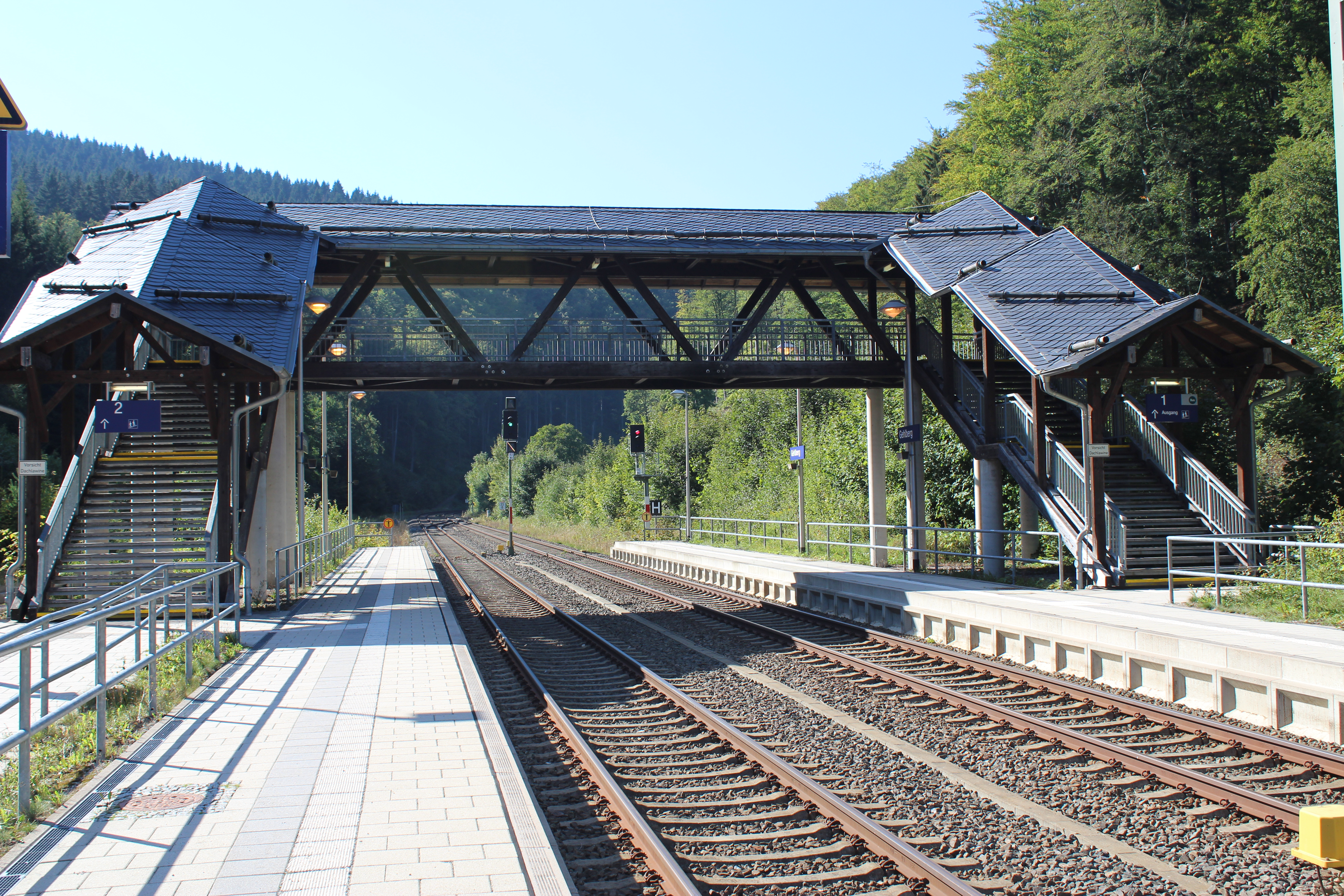 train station Gehlberg